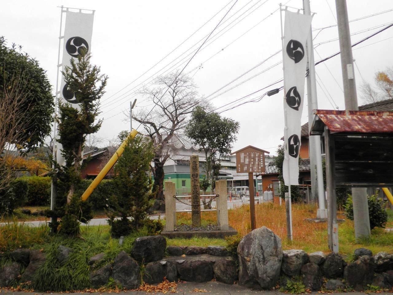 Site of Tanaka Yoshimasa's position in the Battle of Sekigahara.